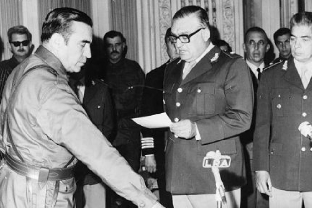 Antonio Domingo Bussi asume la gobernación de Tucumán ante la mirada del General Luciano Benjamín Menéndez. Marzo de 1976.